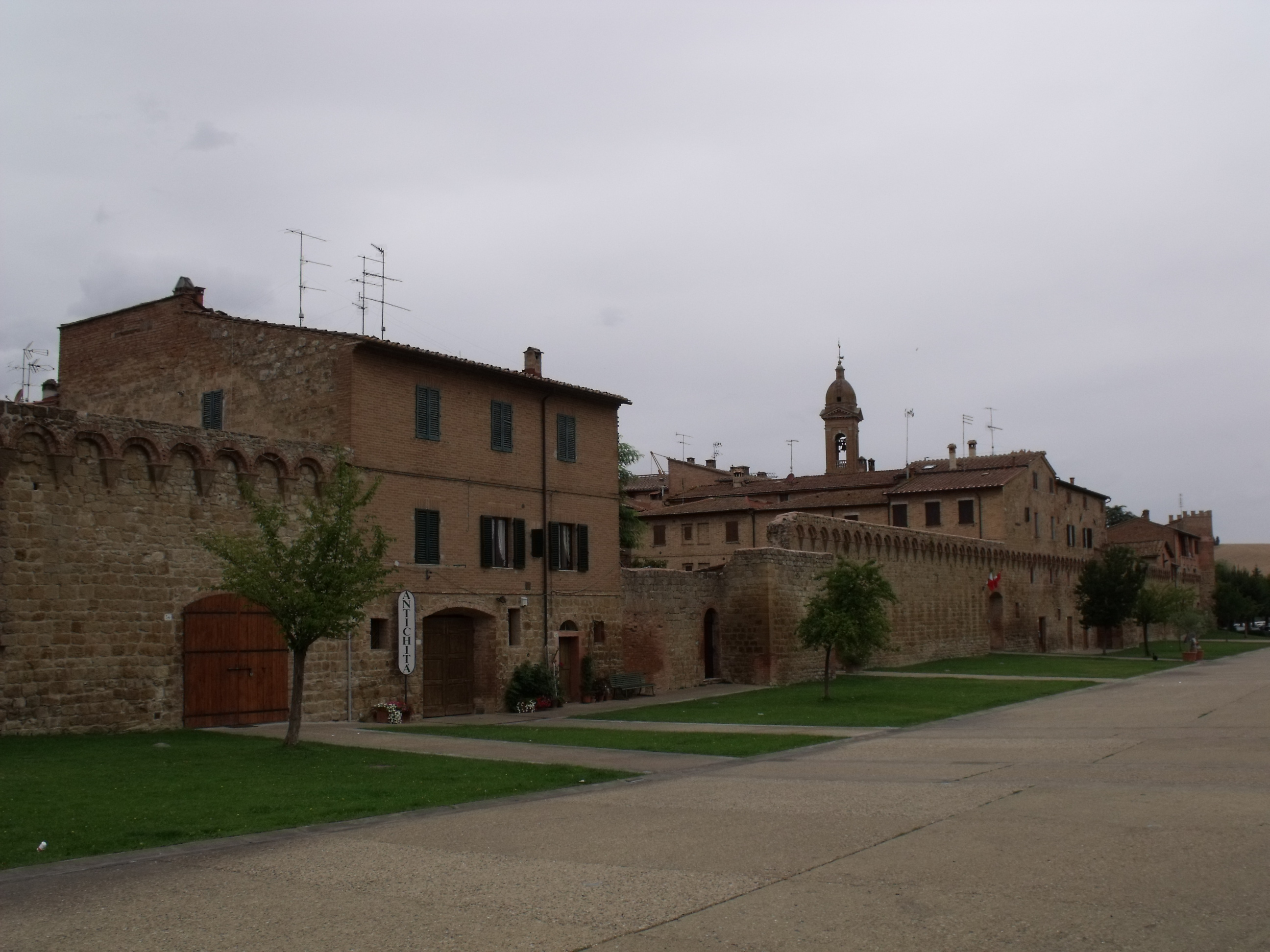 Panorama of Buonconvento, Province of Siena, Tuscany, Italy